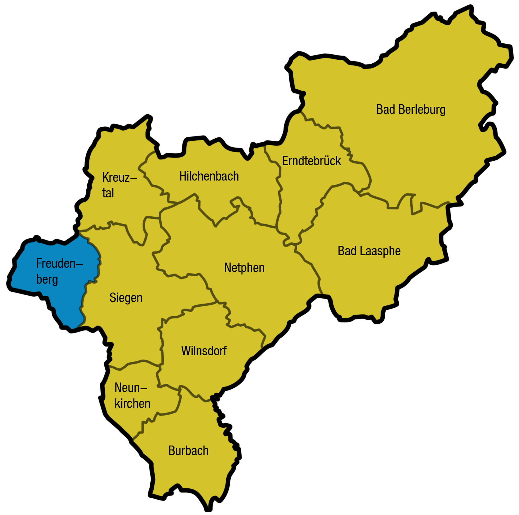 Locator map of Freudenberg in District of Siegen-Wittgenstein, Germany.